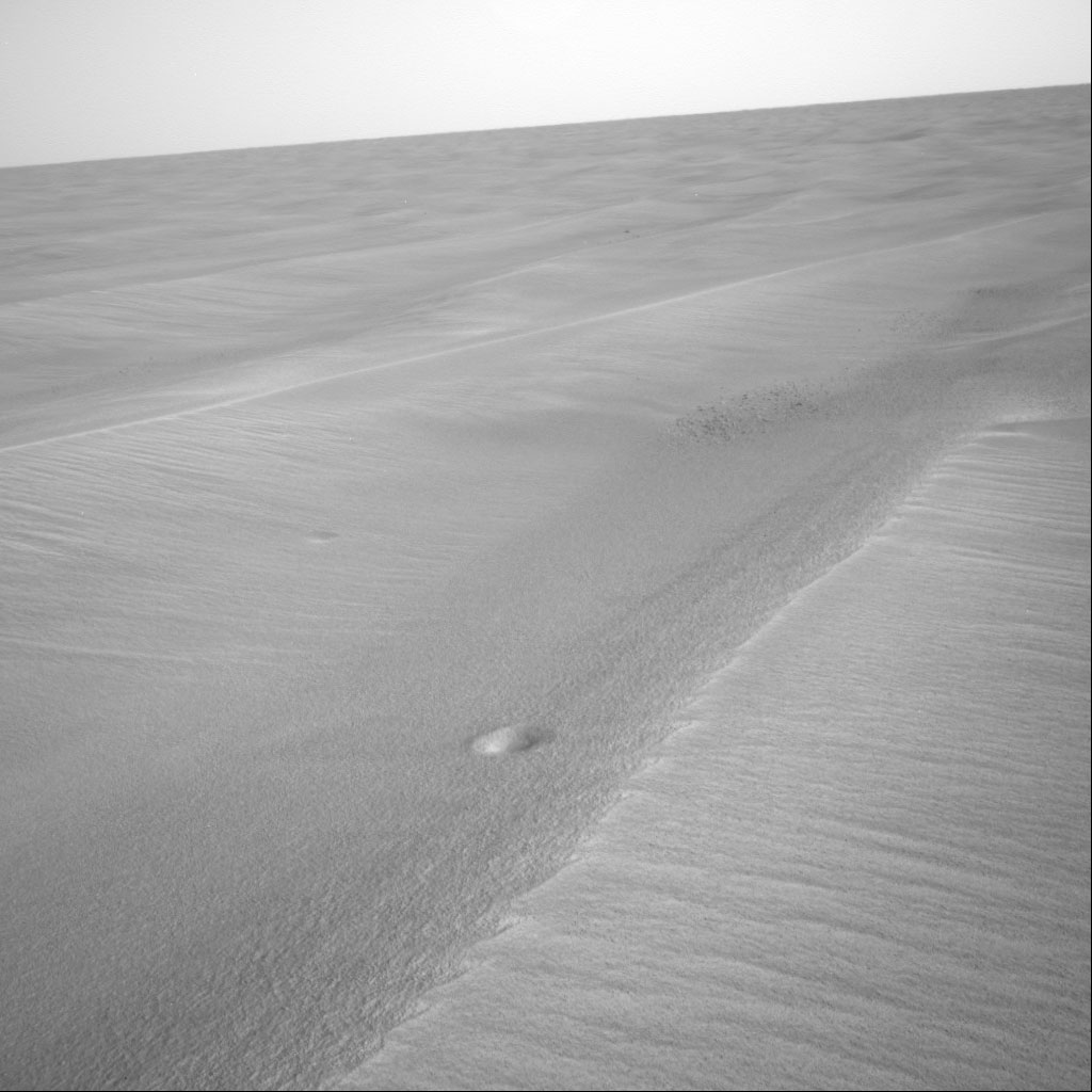 These two craters, each smaller than a foot in diameter and less than one-half inch deep, were found intact by NASA's Mars rover Opportunity on Sol 433.